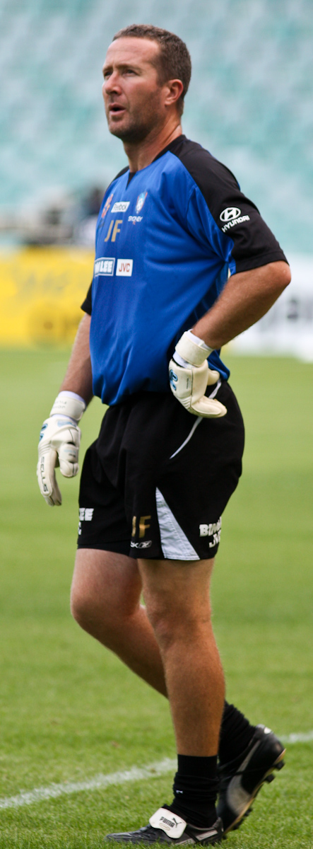 John Filan warming up with the Sydney FC goalkeepers before a match with the Wellington Phoenix.